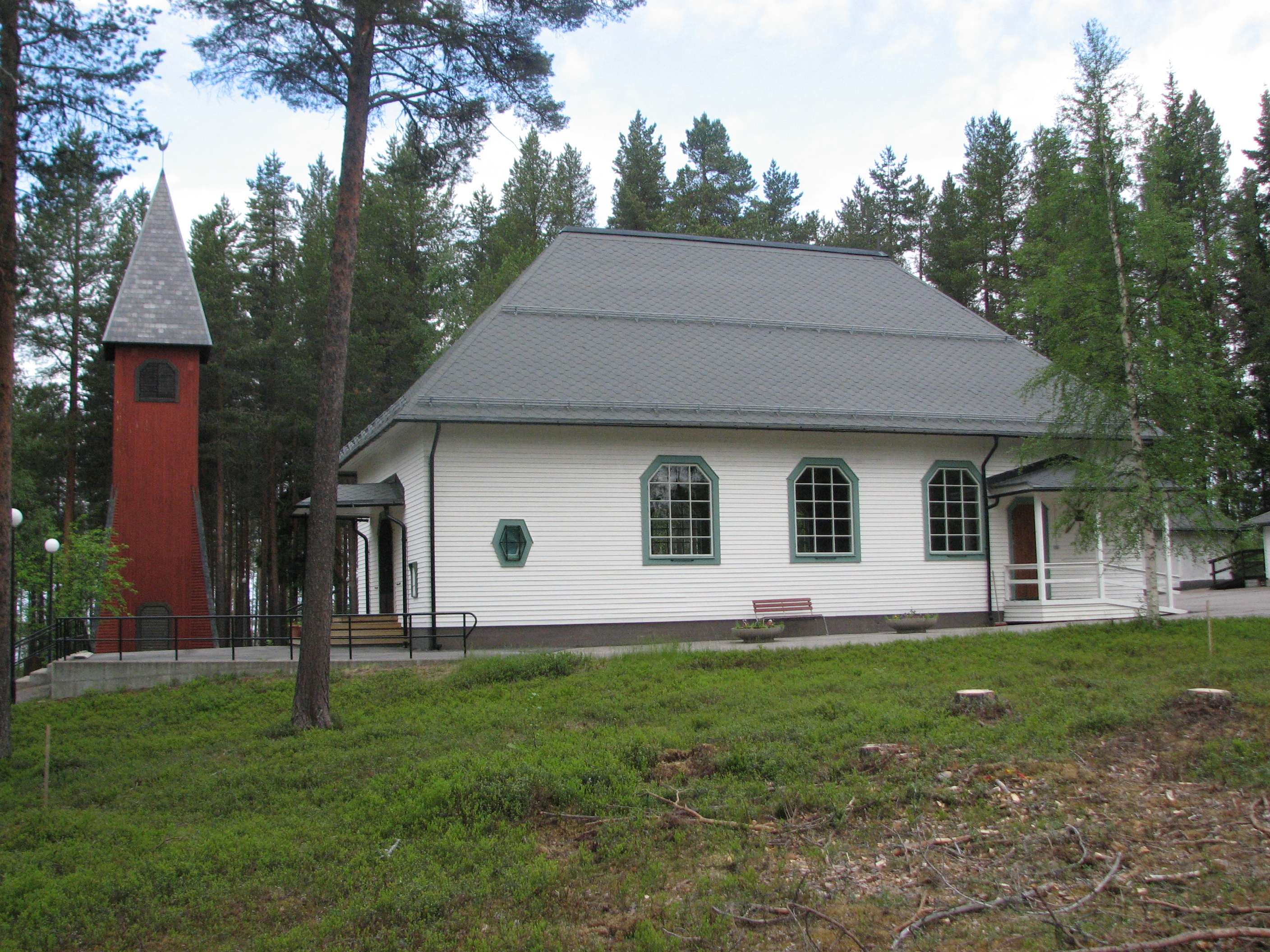 Slagnäs church, Arjeplog Municipality, Sweden